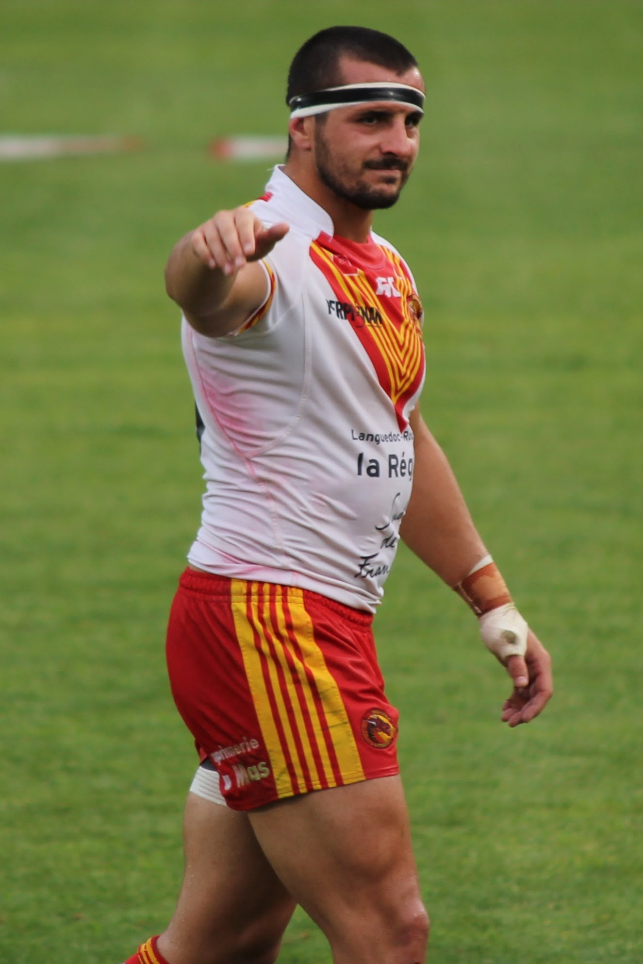 French rugby league player, Vincent Duport.